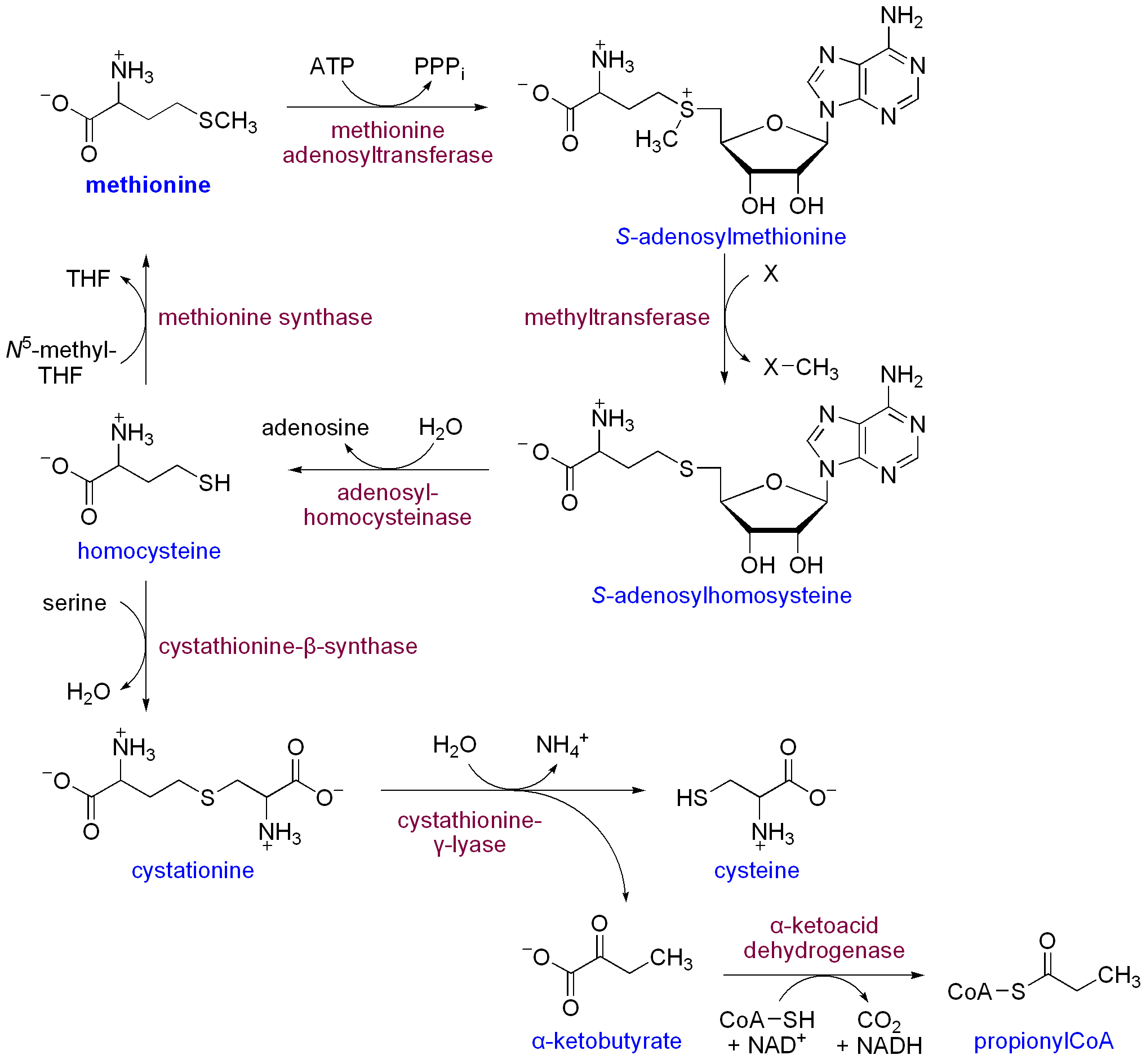 Biochemical pathways of methionine.